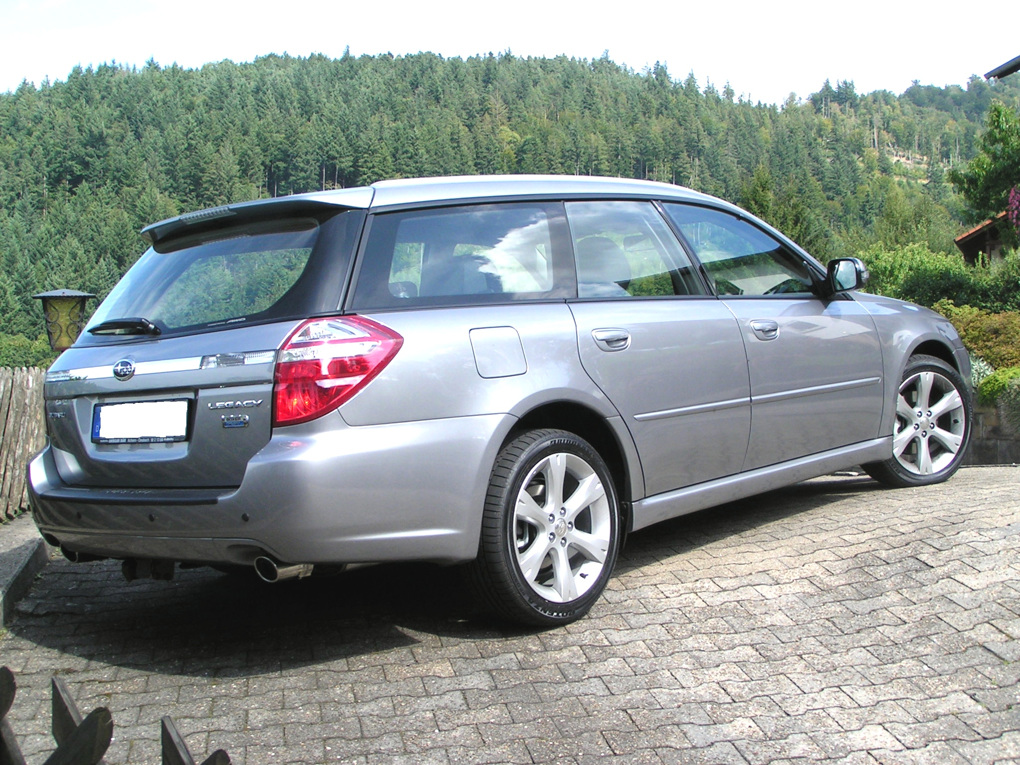 Subaru Legacy 2.0D SW, MY 2008, rear view